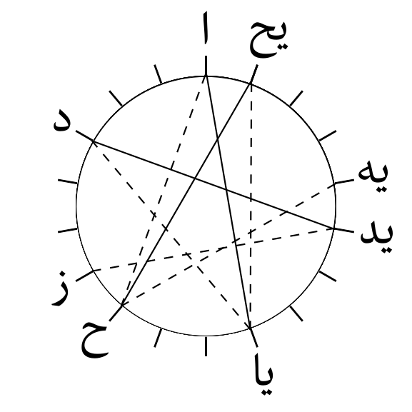 Generated using Inkscape